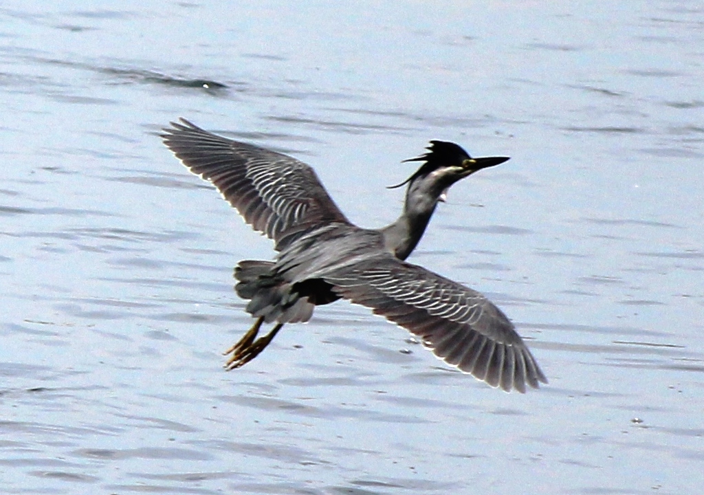 Butorides striatus amurensis (Striated Heron) ,in flight in Japan